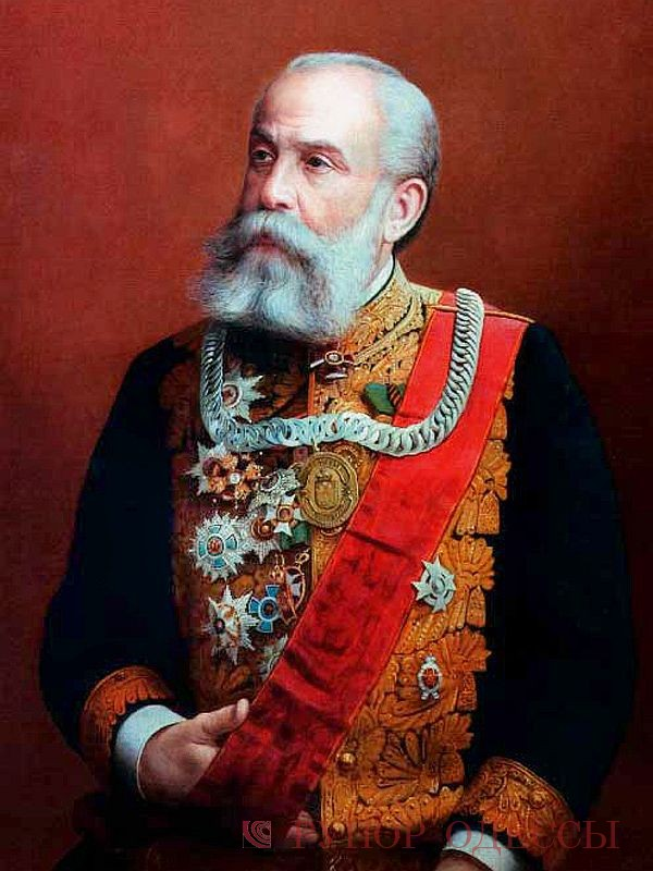 Portrait of Grigorios Maraslis, the Mayor of Odessa